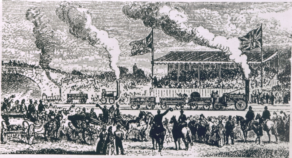 Rainhill Trials from the Illustrated London News. In the foreground is Rocket and in the background are Sans Pareil (right) and Novelty.